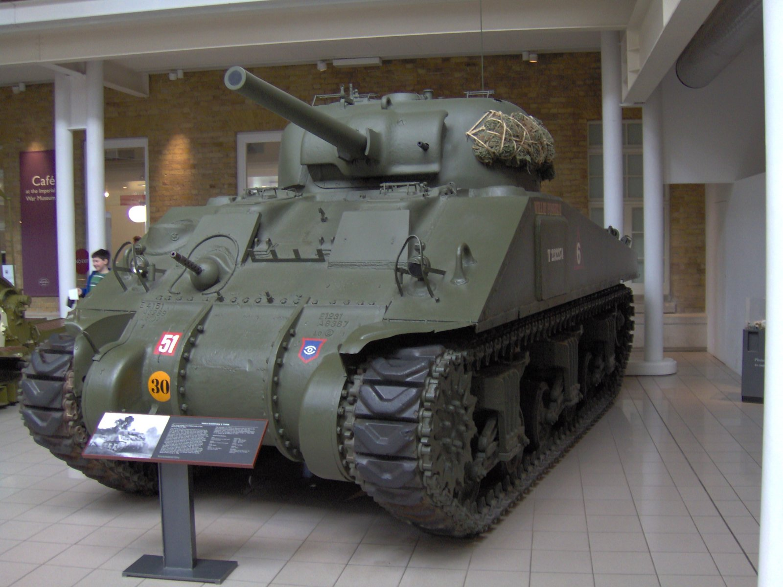 M4A4 Sherman tank, at the London Imperial War Museum